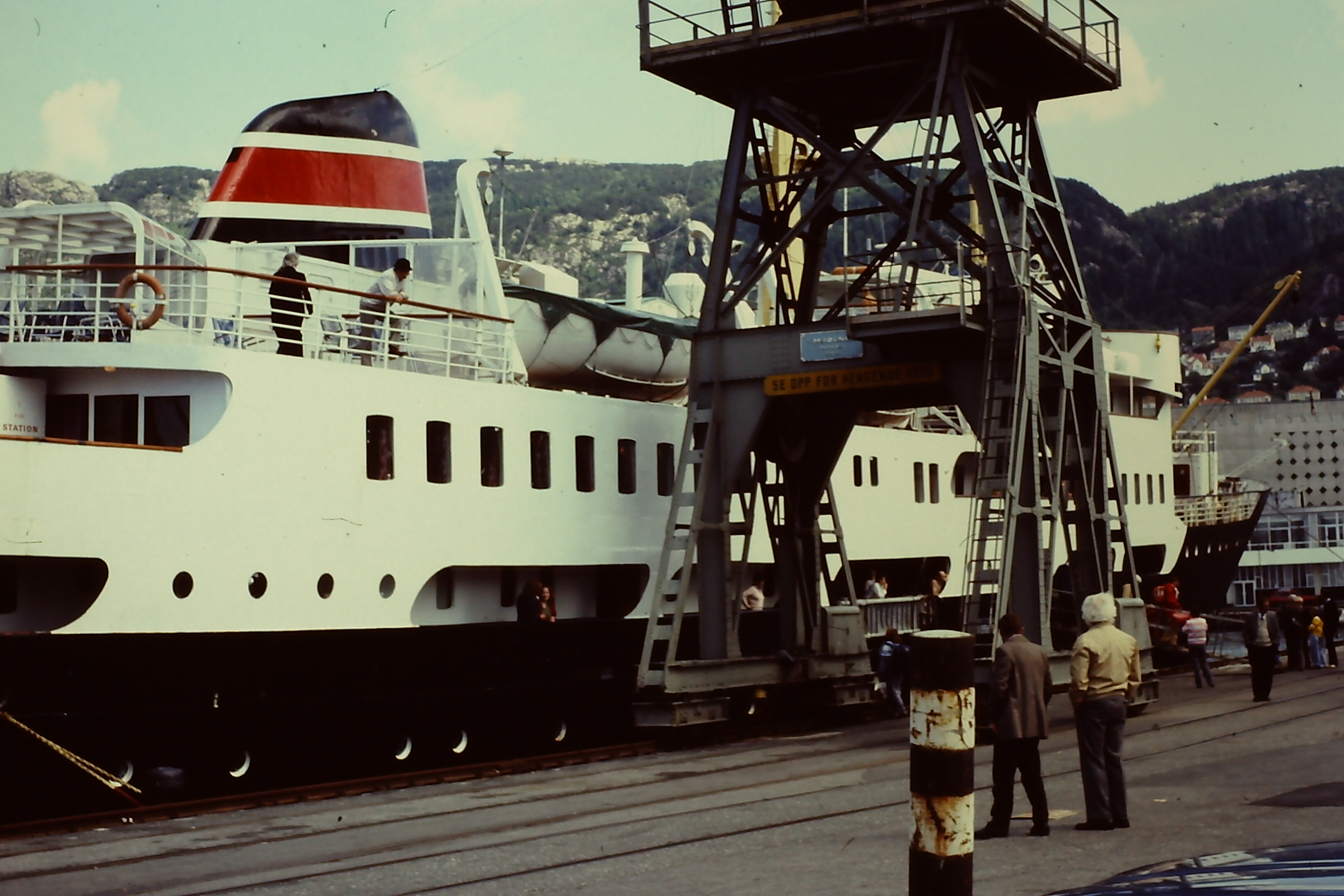 Hurtigruten ship "Ragnvald Jarl", 1981.